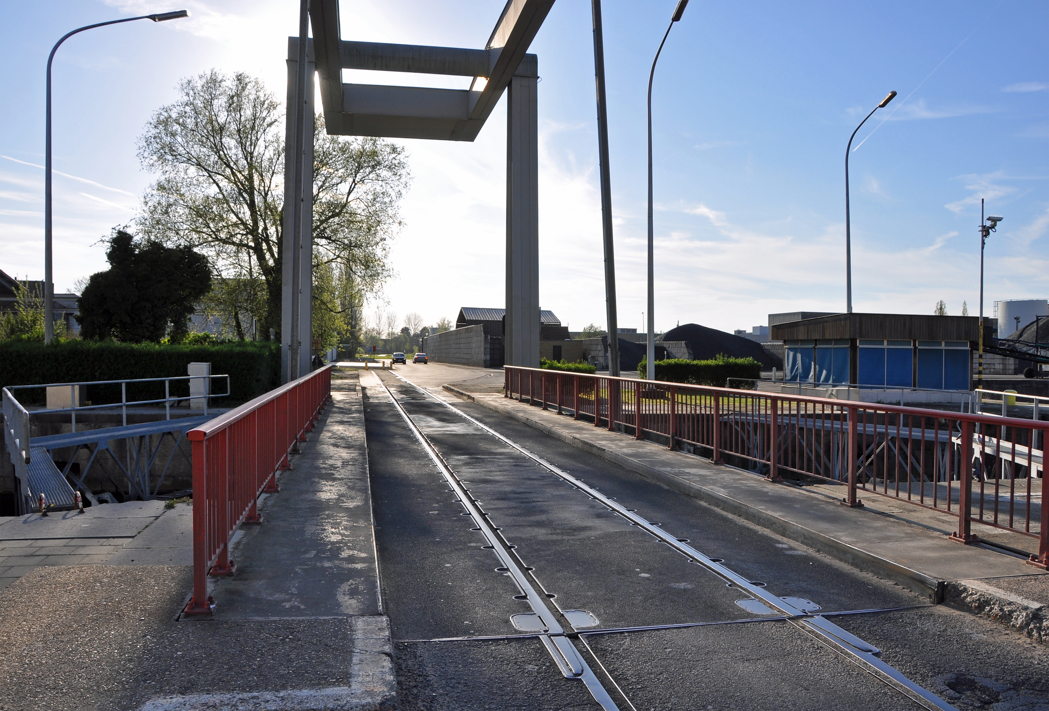 Bruges (Belgium): the Boudewijnsluis bridge and a provisionally remaining section of former railway line 201